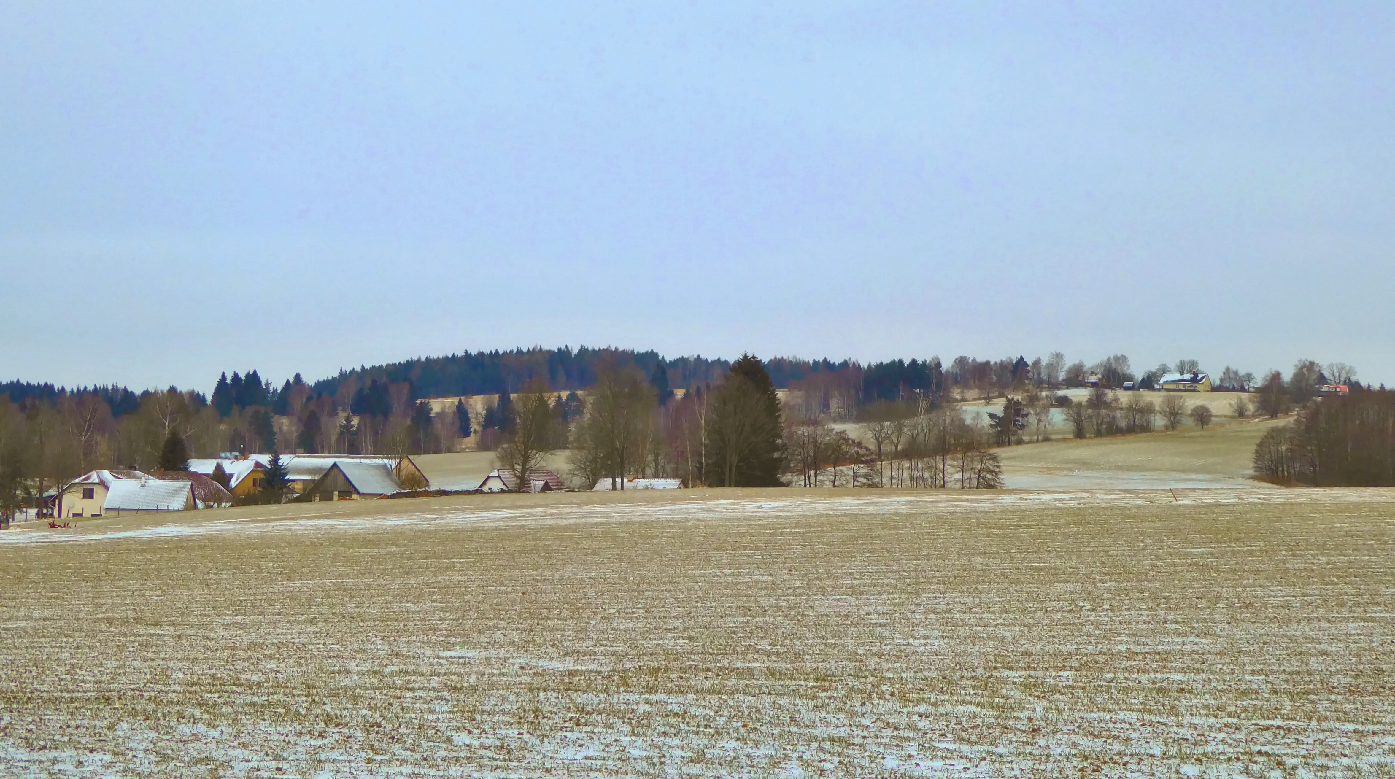 The small hamlet of "Možděnice", part of village "Vysočina", lies below the Zuberský hill (651 m above sea level), south of the peak. The constructions at an altitude of about 560-580 m along the nameless watercourse, the source of "Dlouhý potok" (part of the buildings at the top of the village on the photo on the left, in the top part of a hill the small hamlet of "Zubří"). The boundary between geomorphological districts runs in the slope of the hill, below the "Stružinecká" knoll hill (the hamlet of "Možděnice"), the top part lies in the "Kameničská" Highlands (the hamlet of "Zubří"). On a hill southwest under the top of a nature reserve with name "Zubří" (cadastral territory "Trhová Kamenice"). Photo location: Czechia, Pardubice Region, municipality Vysočina, the hamlet of "Možděnice", "Stružinecká" knoll hill.